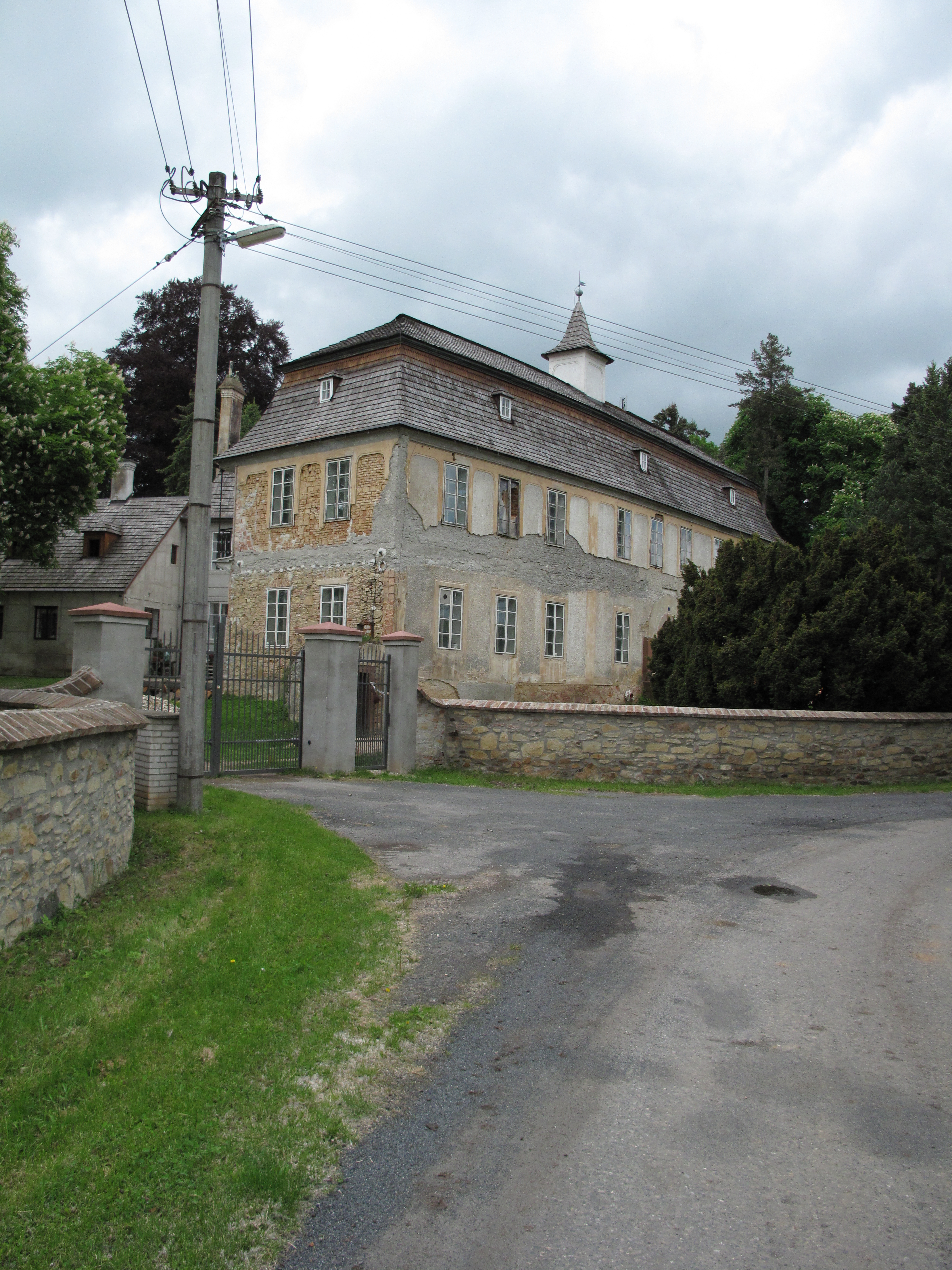 Palace in Molitorov village, Kolín District, Czech Republic.